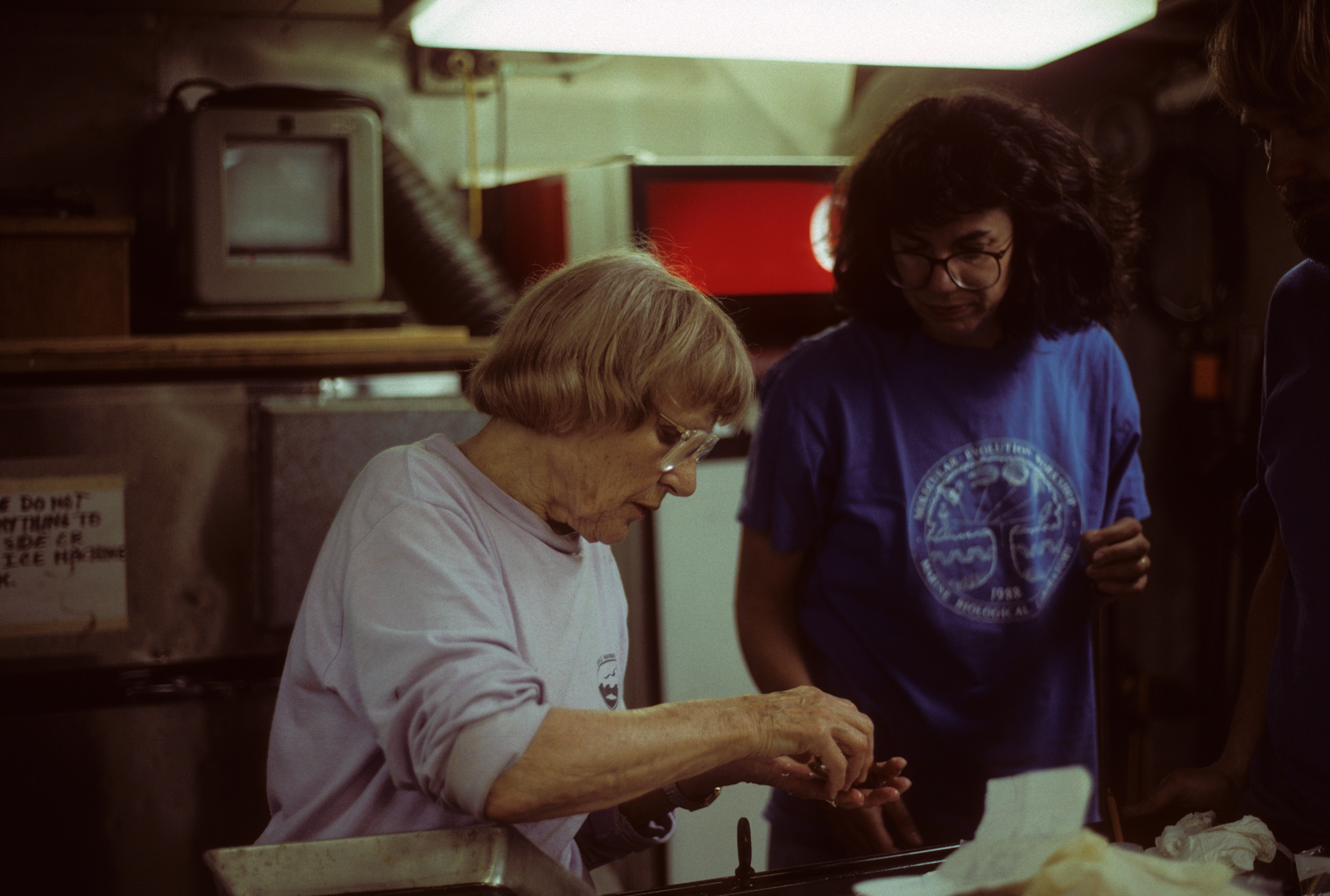 A photograph of two scientists - Ruth Turner and Colleen Cavanaugh from a deep sea research cruise in 1992. Ruth and Colleen were dissecting deep sea clam samples that were collected using the Alvin submersible.